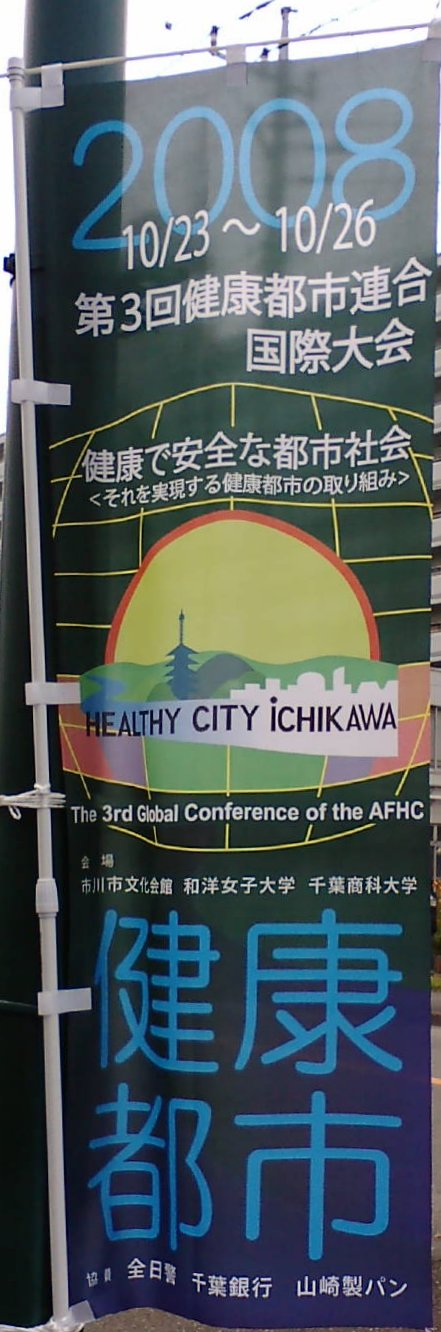 Banner (Nobori) for 3rd Global Conference of AFHC in Ichikawa Chiba Japan in 2008. AFHC；Alliance for Healthy Cities